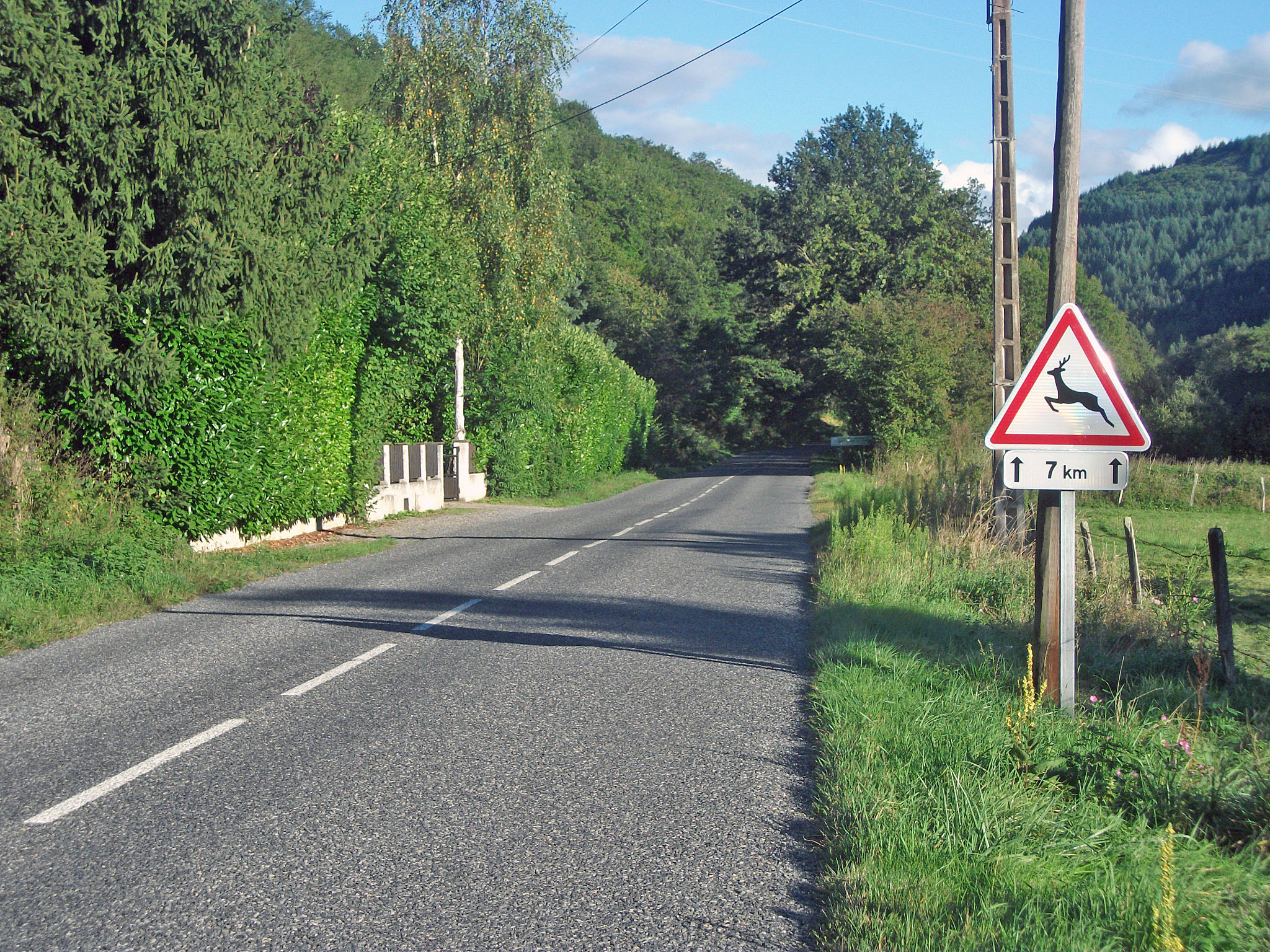 Signs indicating wild animals - commune of Cusset [4077]